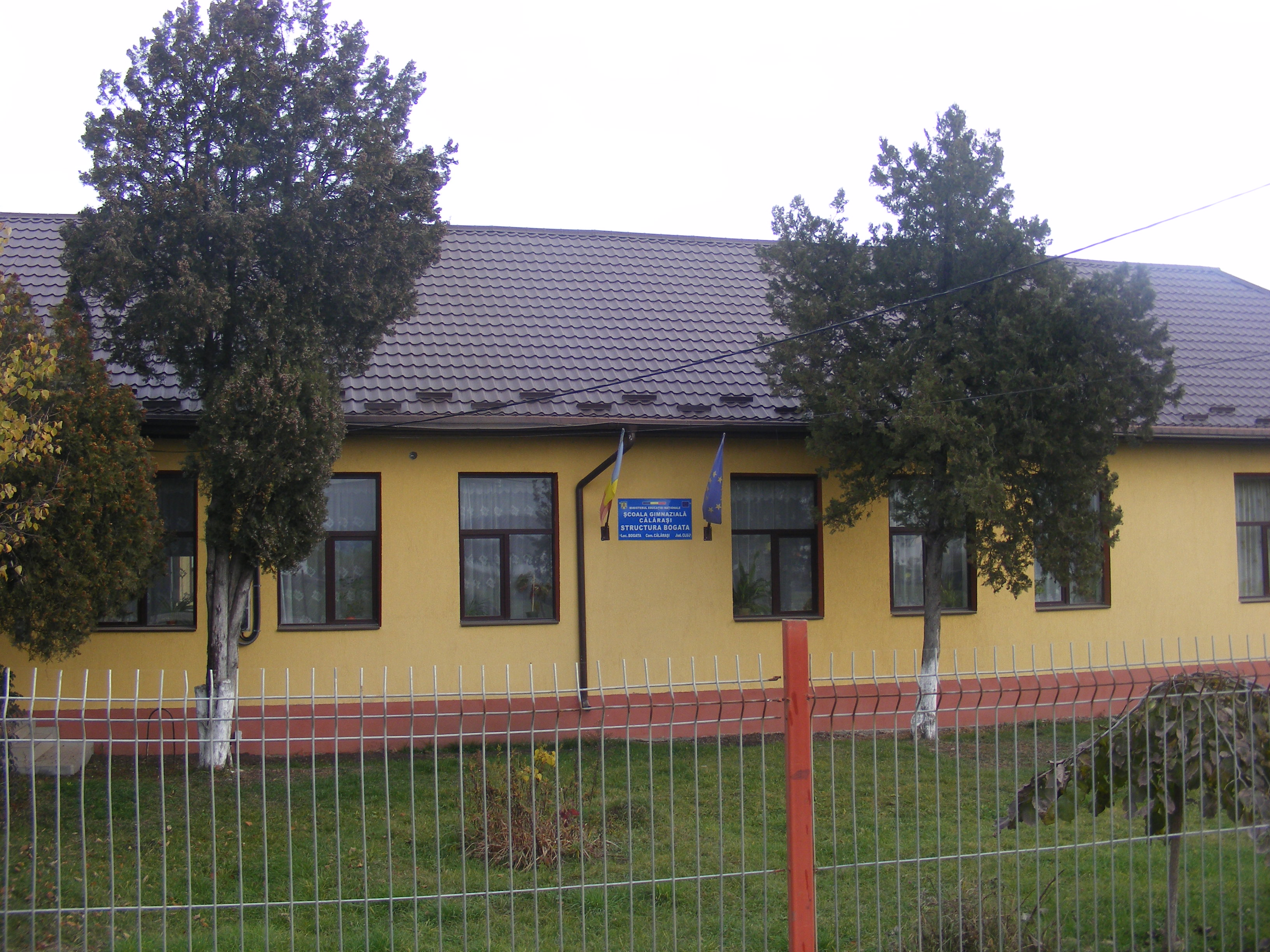 School at Bogata, Cluj County, Romania.